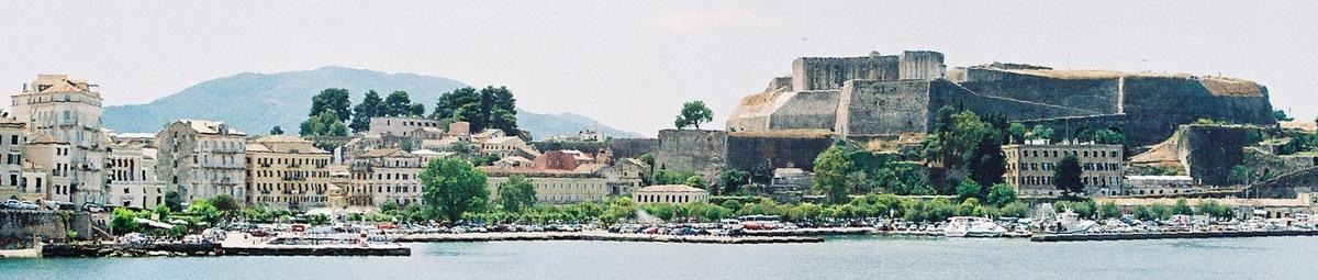 New Venetian fort in Corfu (Greece). Author:Milica Markovic.